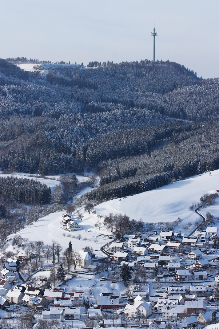 View on Hausen am Tann and Plettenberg (district Zollernalbkreis) in winter